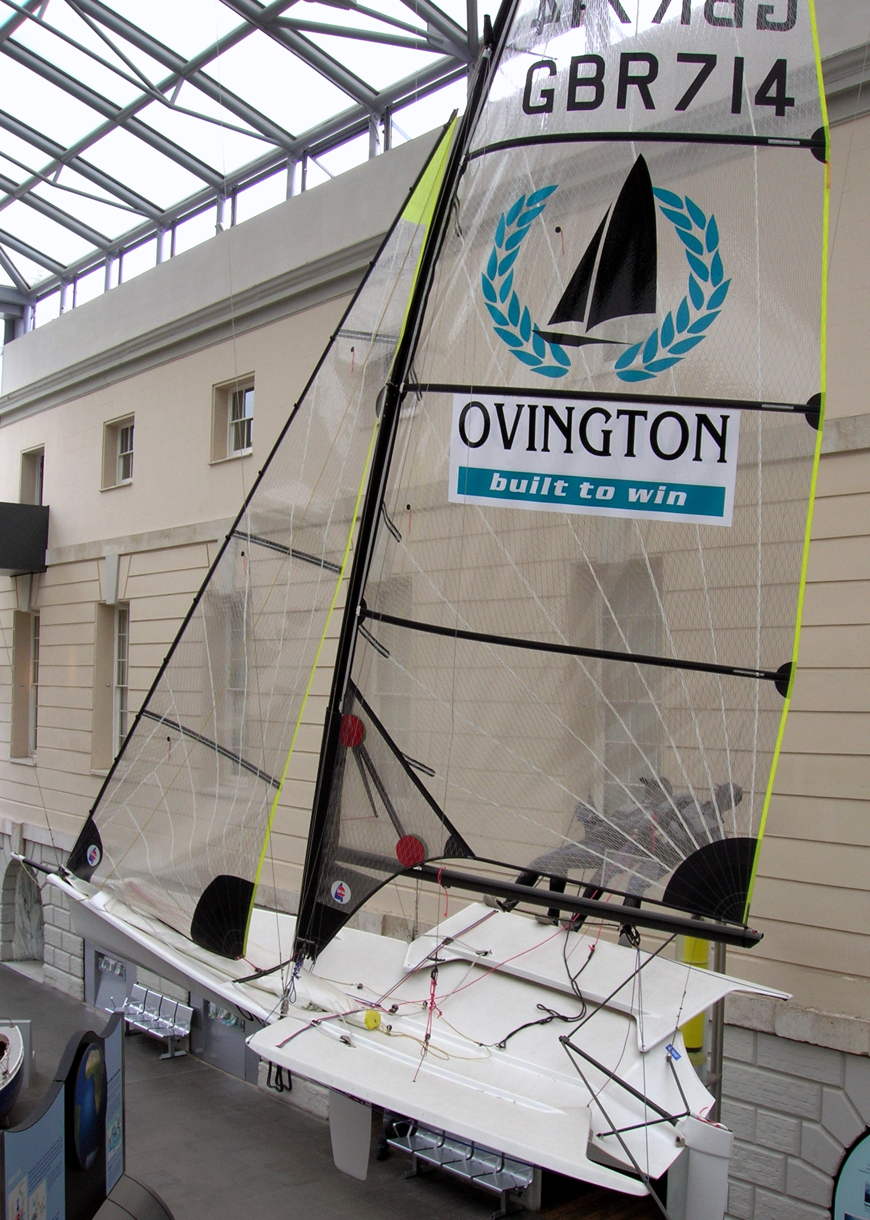 A 49er, fast sailboat.